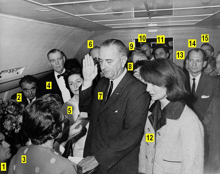 Lyndon B. Johnson taking the oath of office on Air Force One following the assassination of John F. Kennedy, Dallas, Texas. Original photograph by Cecil Stroughton, with captions inserted to identify persons: Mac Kilduff (1), Jack Valenti (2), Judge Sarah T. Hughes (3), Congressman Albert Thomas (4), Lady Bird Johnson (5), Chief Jesse Curry (6), Lyndon B. Johnson (7), Evelyn Lincoln (8), Congressman Homer Thornberry (9), Roy Kellerman (10), Lem Johns (11), Jacqueline Kennedy (12), Pamela Tunure (13), Congressman Jack Brooks (14), Bill Moyers (15)